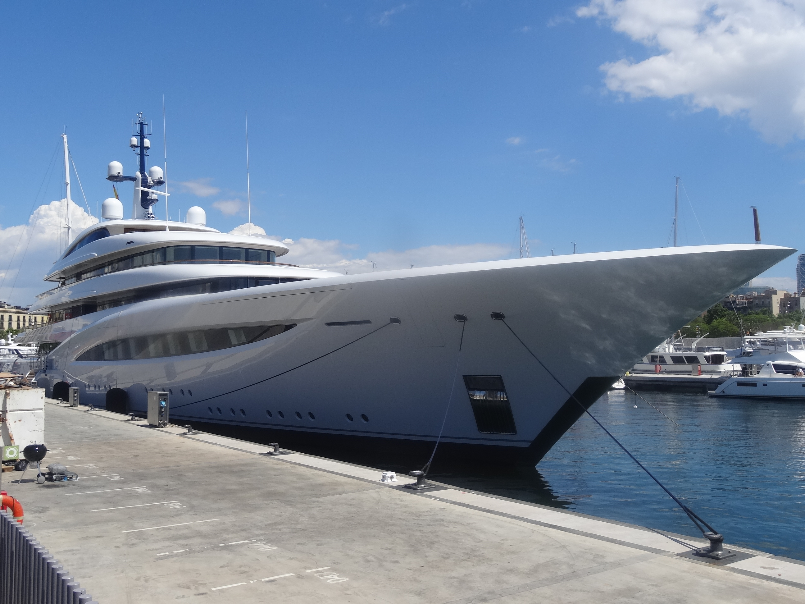 Faith yacht - Barcelona 2017